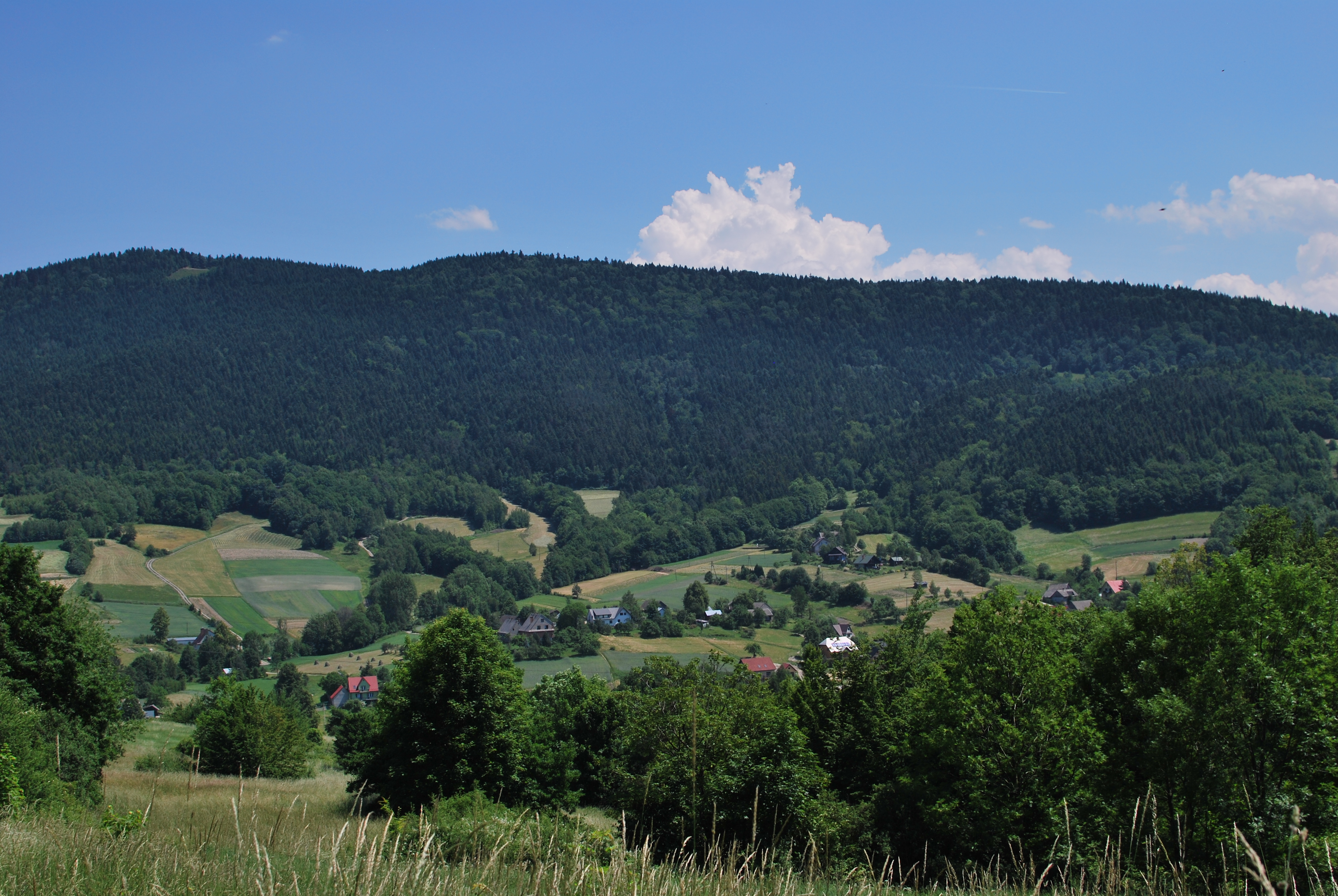 Wierzbanowa village (view from W), Myślenice county, Lesser Poland Voivodeship, Poland